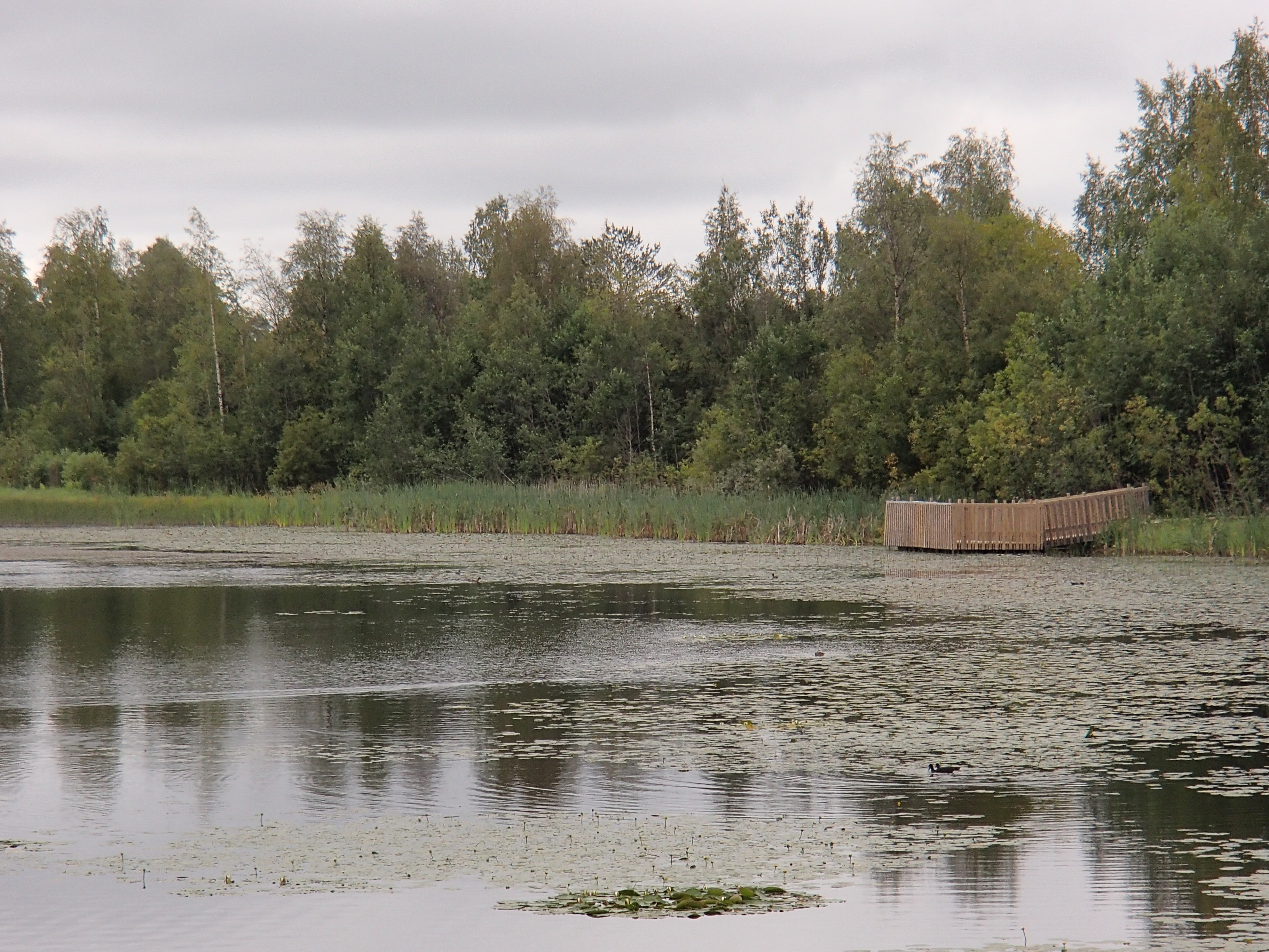 Fågelskådningsplats vid Mjölkuddstjärnen